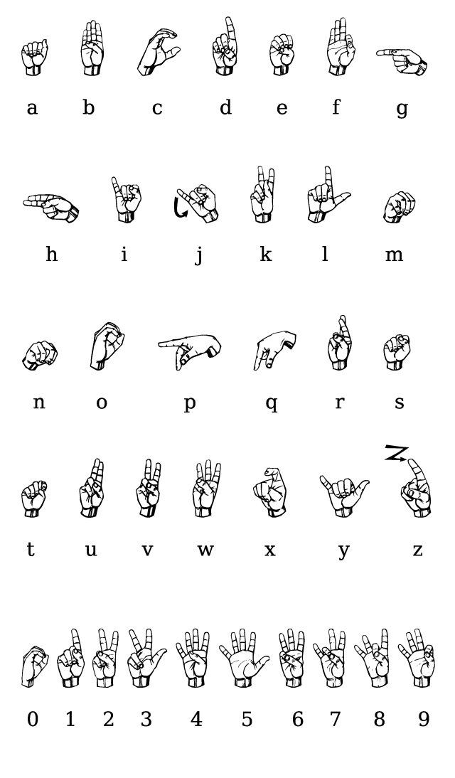 American Sign Language alphabet, laid out by Darren Stone, derived from the Gallaudet-TT font. Distribution details of font claim that it is copyright (C)1991 by David Rakowski but be used for any purpose and redistributed freely. I'm therefore under the impression that I can use this font to create an image, as I have, and release it into the Public Domain. Please correct me if this is not the case.